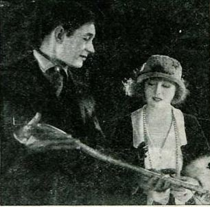 Still from the American silent film A City Sparrow (1920), page 31 of the January 1921 Film Fun. In the film Milly West (Ethel Clayton), a cabaret dancer becomes injured, and after a surgeon says she cannot become a mother, she gives up on love. Tim (Walter Hiers) loves her and after she rejects him, writes his mother in the country that he has killed himself. David (Clyde Fillmore), a man from the country takes her there to recover and later wins her over. Still 4: "During a sojourn in the country she meets David Muir, who learns to love her."